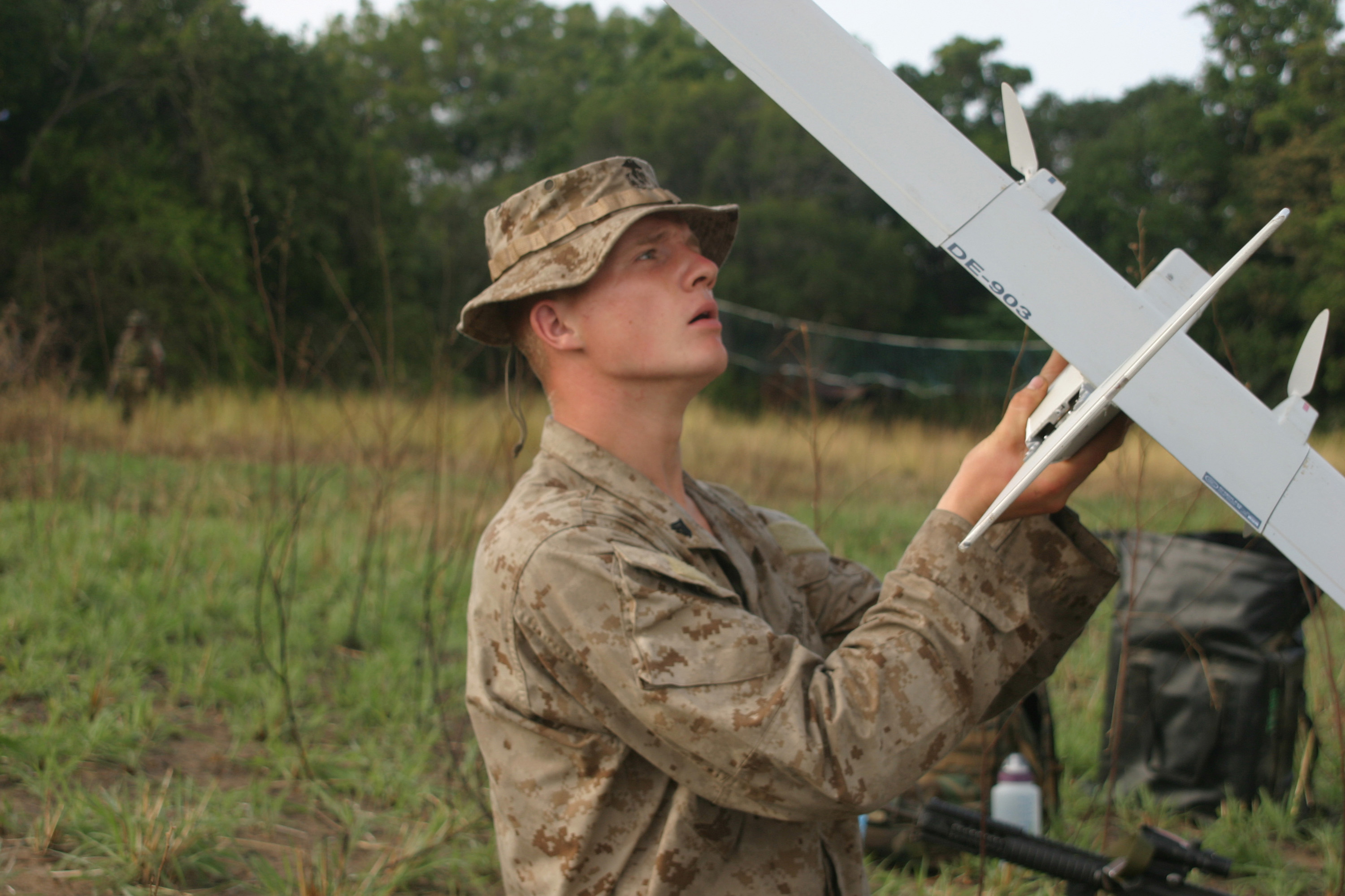 U.S. Marine Corps Cpl. James H. Wallenstein performs a function check on a Dragon Eye unmanned aerial vehicle before demonstrating a flight for Kenyan army soldiers from the 15th Kenyan Rifle Battalion during exercise Edged Mallet 2007 at Bargoni Range in Kenya.